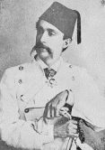 Charles Chaillé-Long